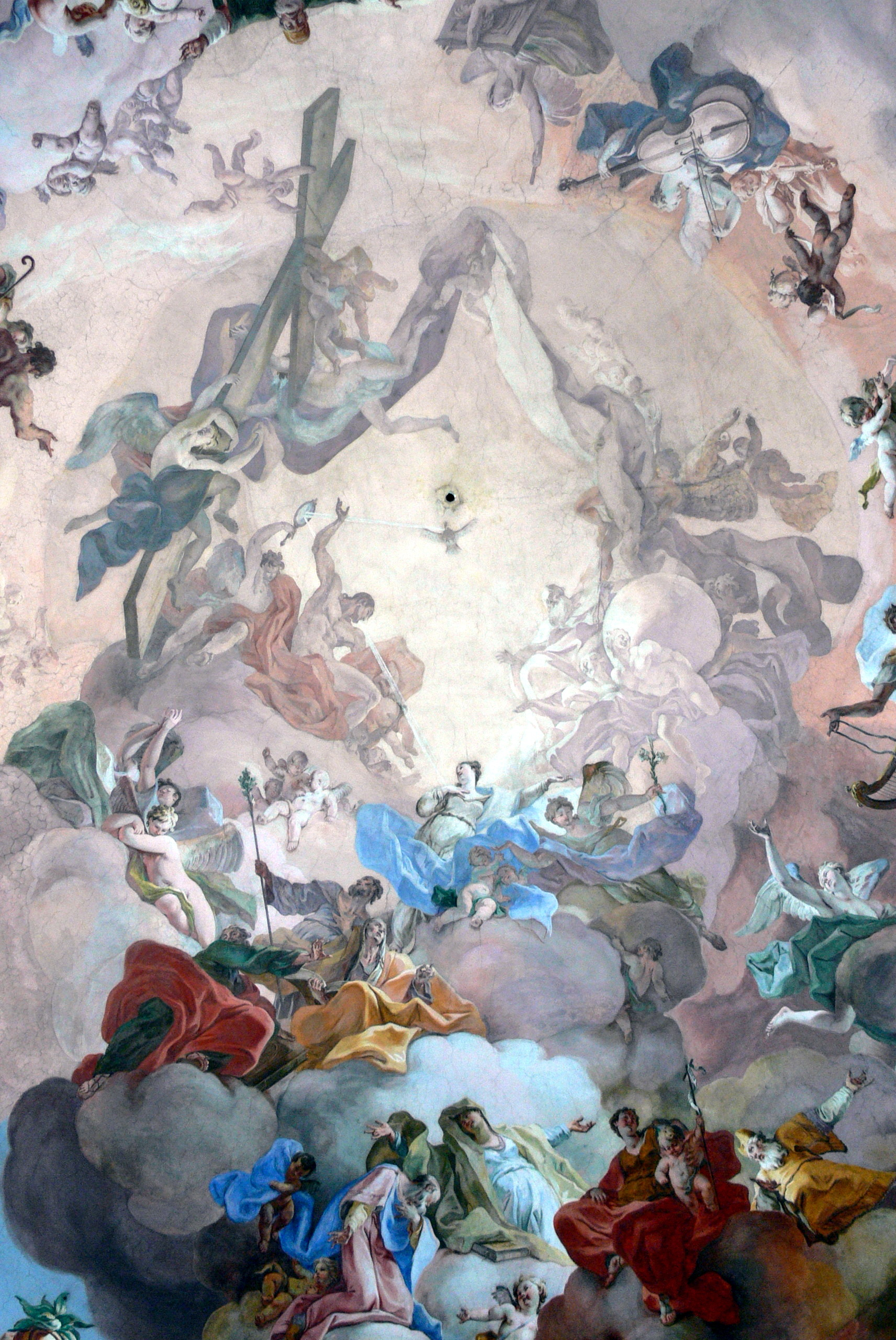 Saint Mary in Hafnerberg ( Lower Austria ). Dome: Fresco of the Assumption of Mary ( 1743 ) by Joseph Ignaz Mildorfer - detail.